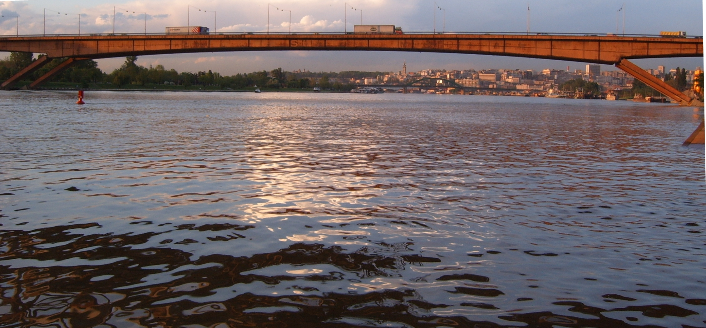 Gazela Bridge in Belgrade, Serbia